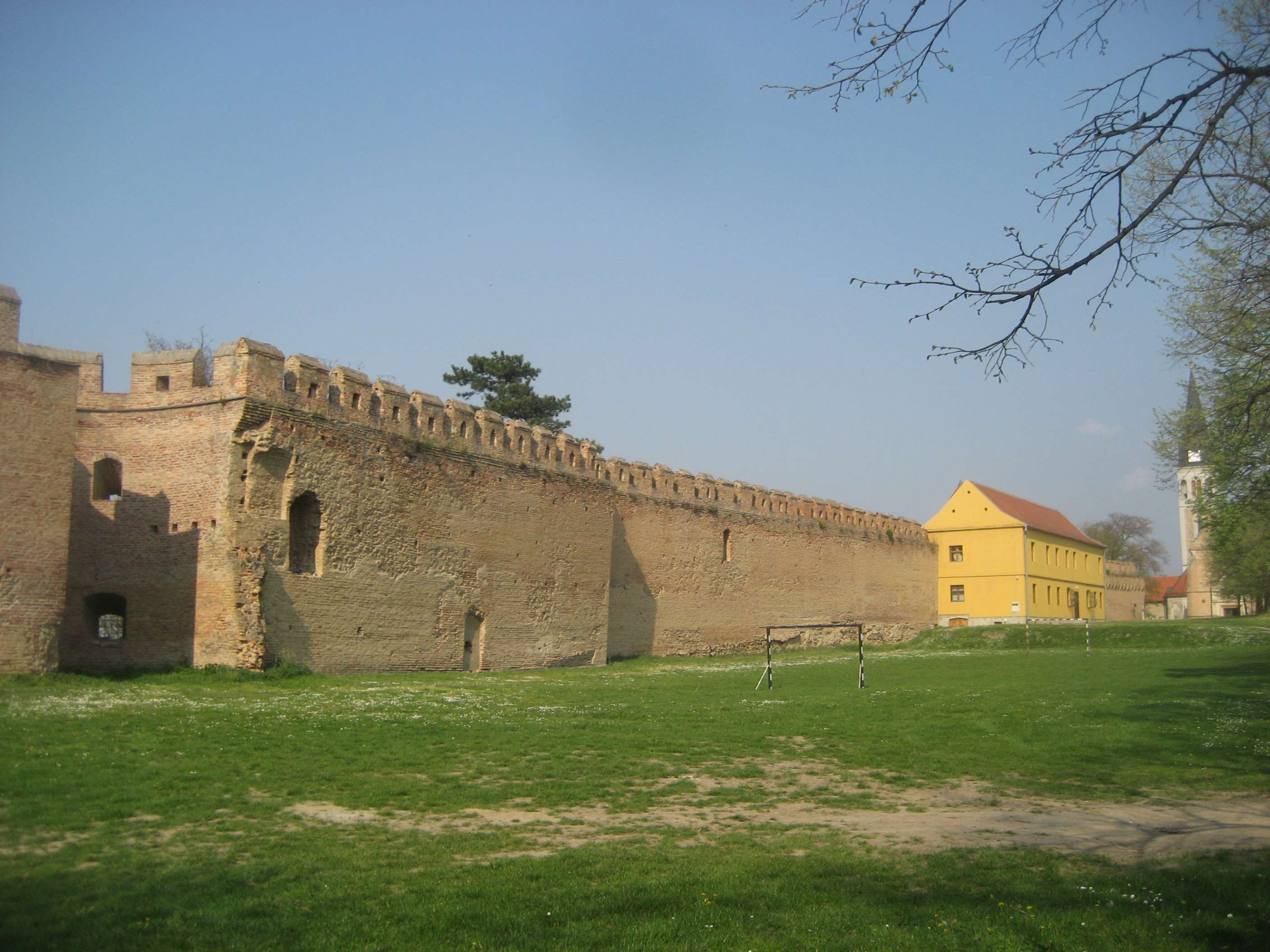 Ilok Fortress, Croatia. April 2009